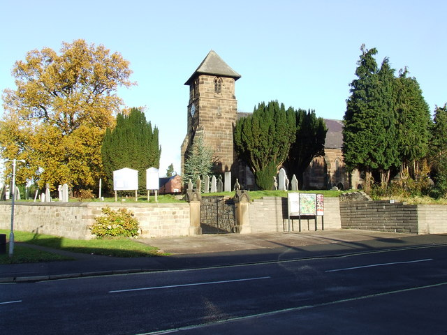 St Matthew's parish church, Overseal, Woodville Road, Derbyshire, England, seen from the south